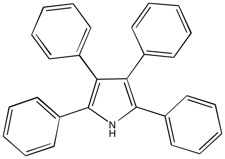 The molecule tetraphenylpyrrole